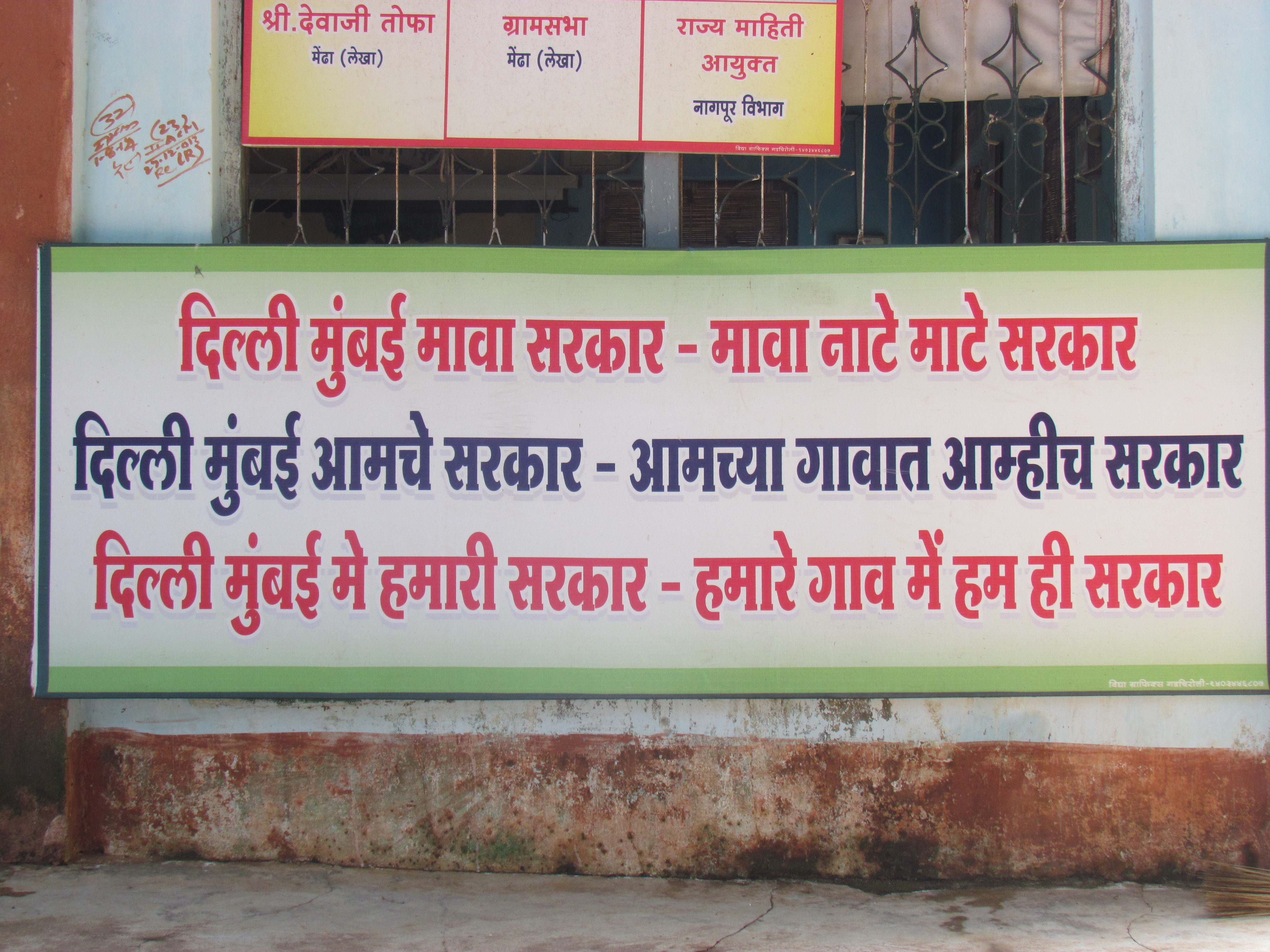 Slogan of people in village for self governance